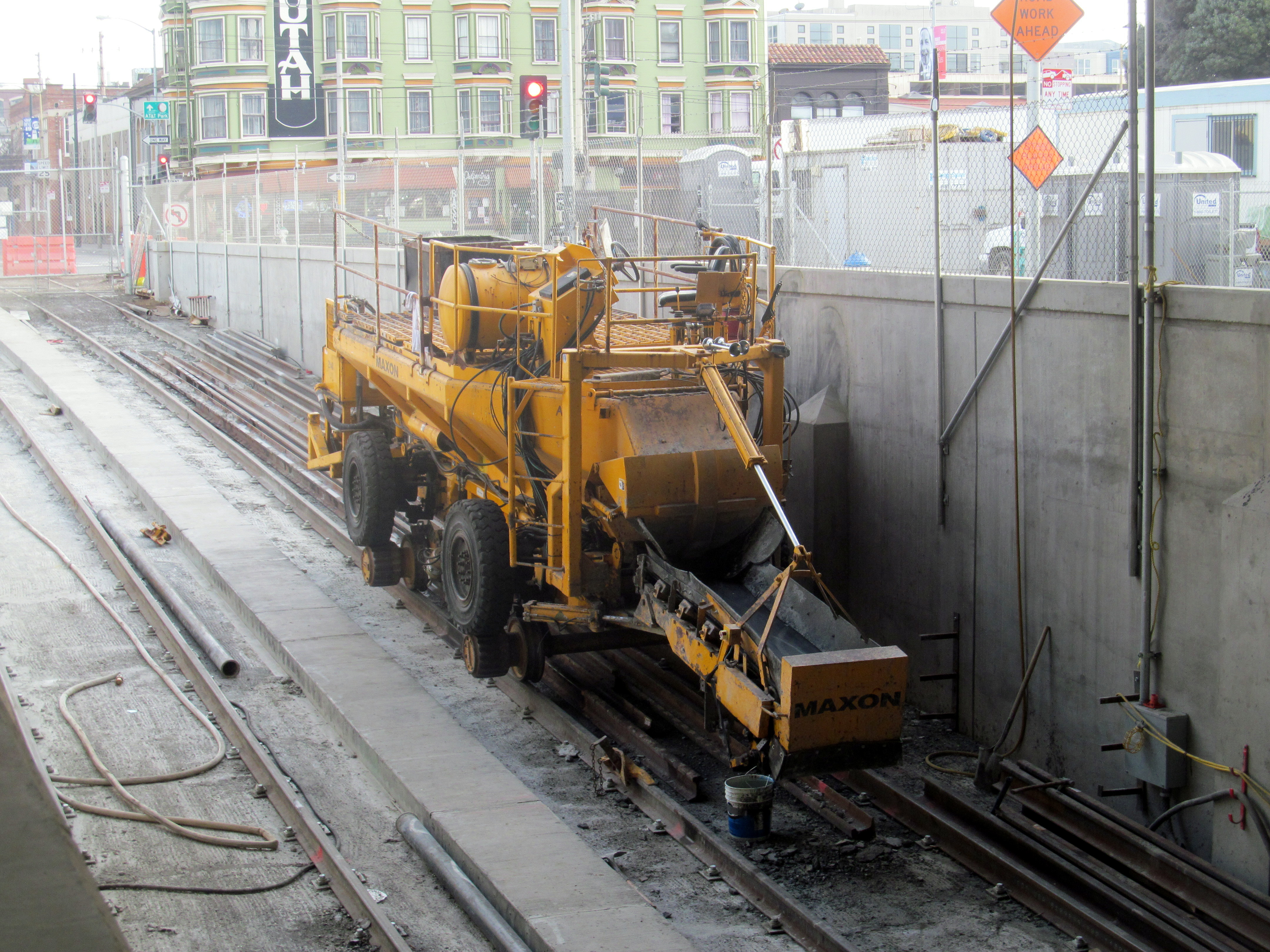 A concrete placement machine in the portal of the Central Subway during construction in December 2017